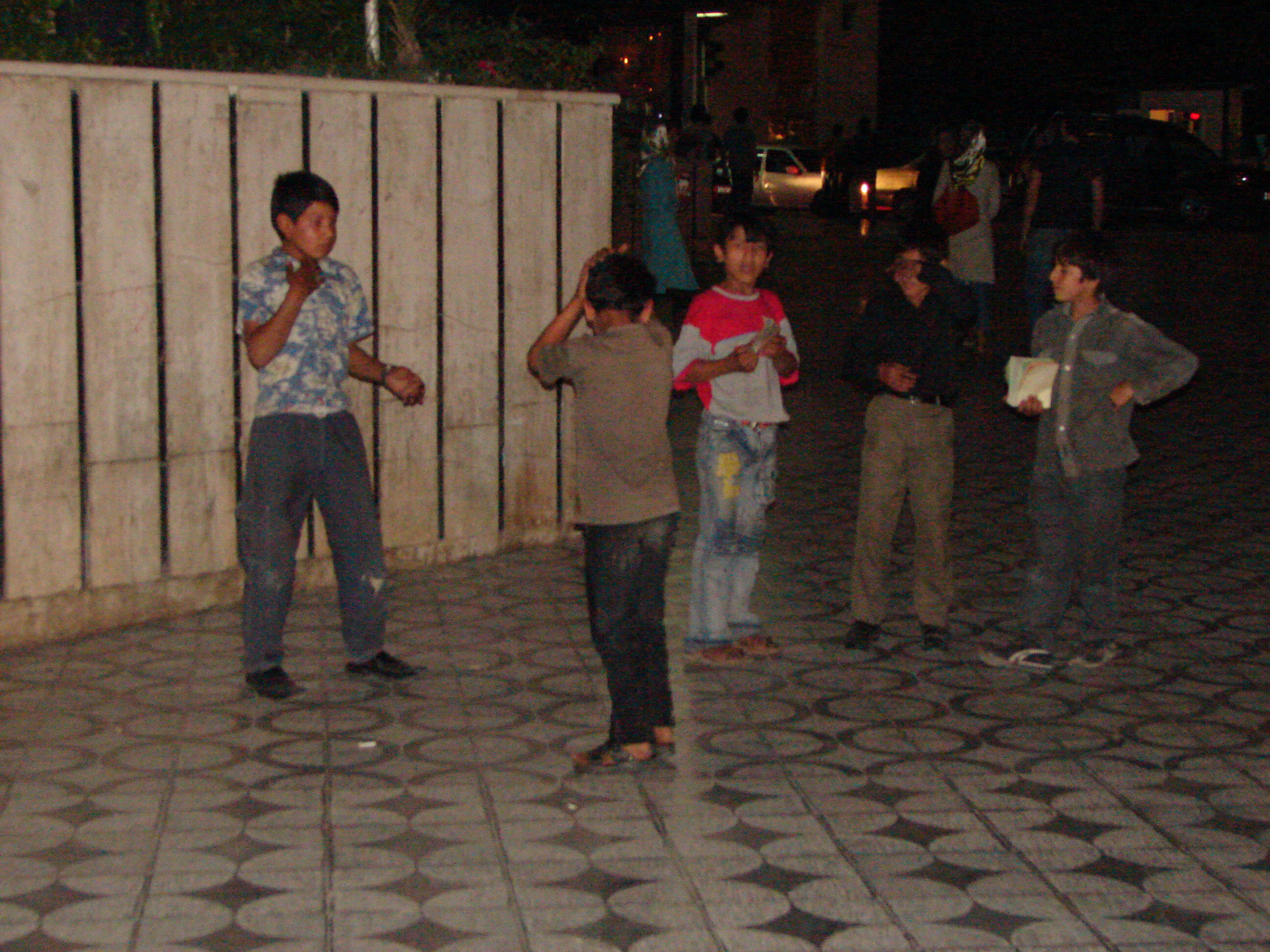 Snapshot from Tehran